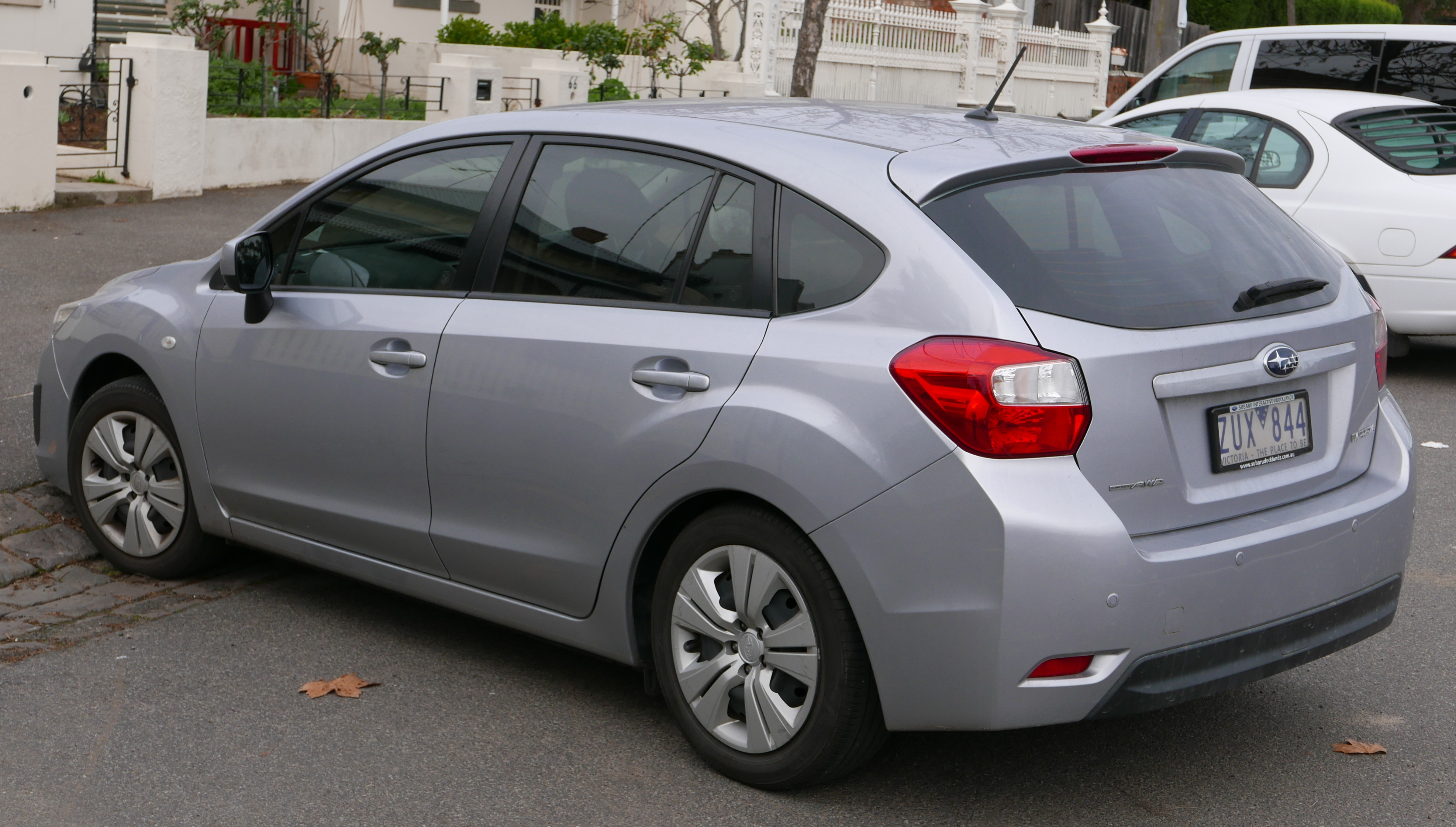 2013 Subaru Impreza (GP7 MY13) 2.0i hatchback. Photographed in Fitzroy North, Victoria, Australia. Vehicle registration enquiry resultsJurisdictionVictoriaRegistrationZUX844Chassis codeJF1GP7KC5DG025791Engine codeR611721Compliance date2013-05Year of manufacture2013